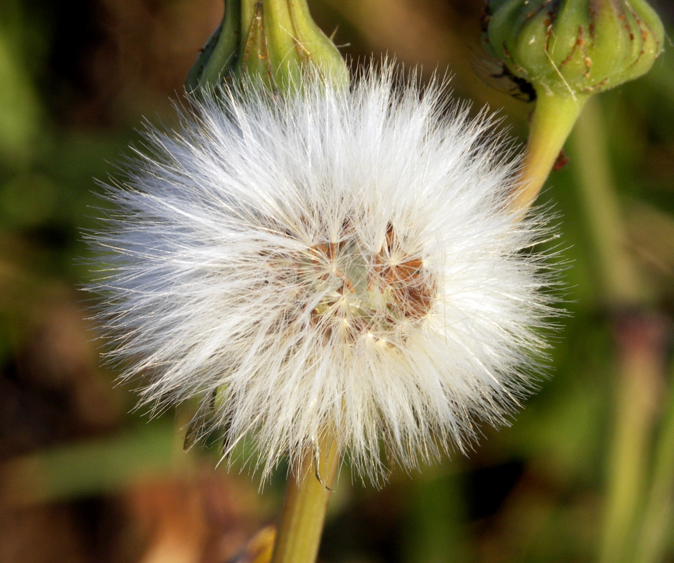 Flying seeds in a fruit of Hawkweed (Hieracium spec.)